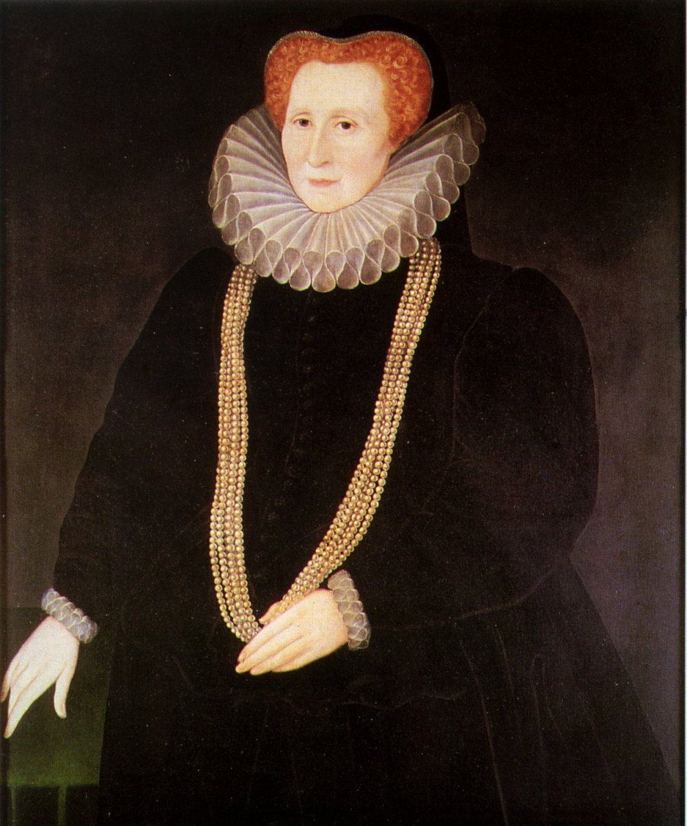 Bess of Hardwick, Countess of Shrewsbury